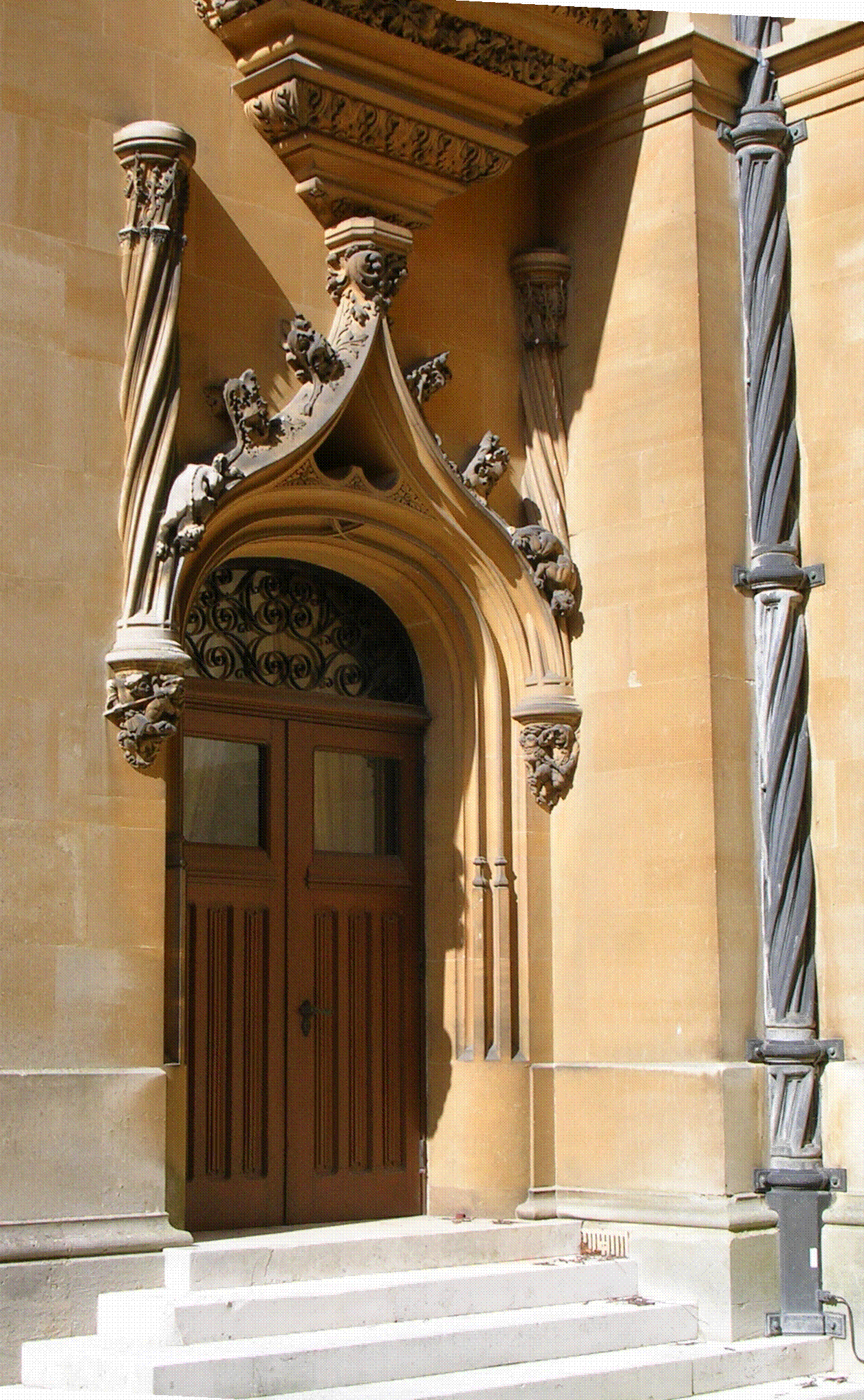 Sculpted entrance to a chateau, photographed by User: Giano who releases into public domain